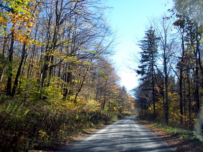 Forest Road 112 leading up the mountain to the summit of Spruce Knob. Road is well maintained and easily accessible by passenger car during normal weather conditions.